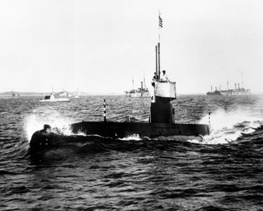 United States Navy submarine in the Atlantic Ocean